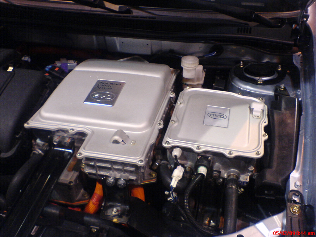 BYD Dual Mode hybrid engine.